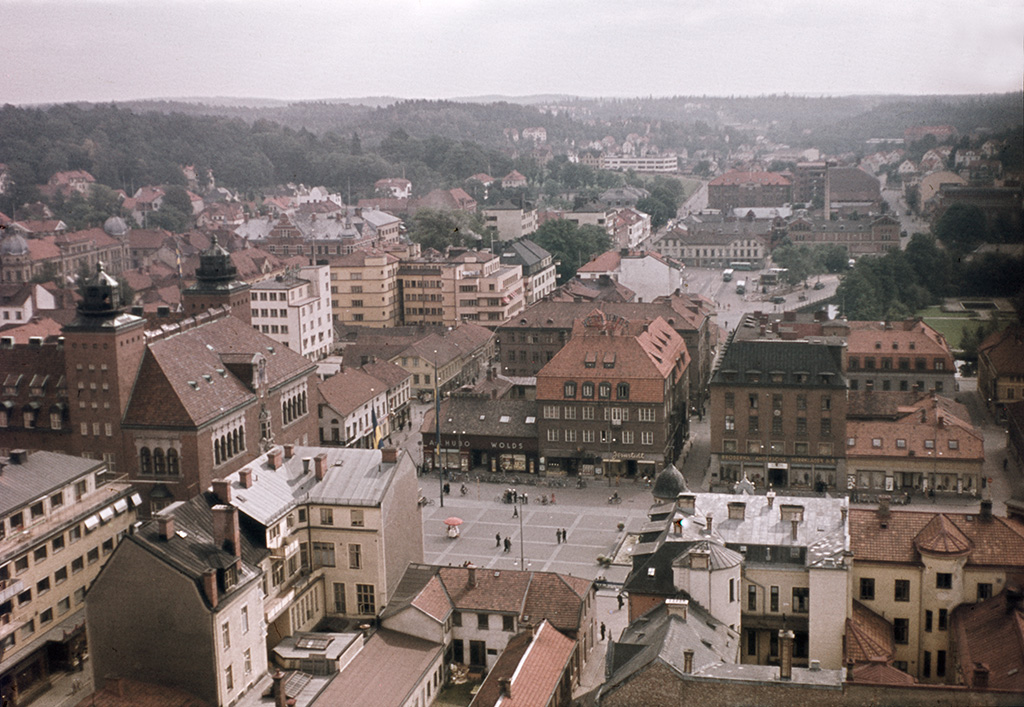 View of Borås from Caroli church towars south, the Main Square and to the left the Town Hall. Vy över Borås från Caroli kyrka mot söder, Stora torget och till vänster Rådhuset. Parish (socken): Borås Province (landskap): Västergötland Municipality (kommun): Borås County (län): Västra Götaland Photograph by: Fredrik Bruno Date: 26-27.08.1944 Format: Colour slide See a recent photo of the same view: Persistent URL: Read more about the photo database (in english)